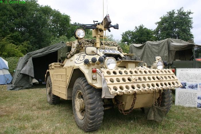 The Picture shows a Ferret Scout Car Mk. 1/2 in Gulf War paint. Registration 18EA24